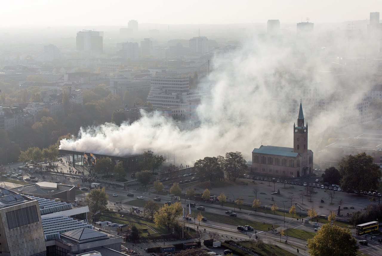 Work by German artist Fabian Knecht, in Berlin